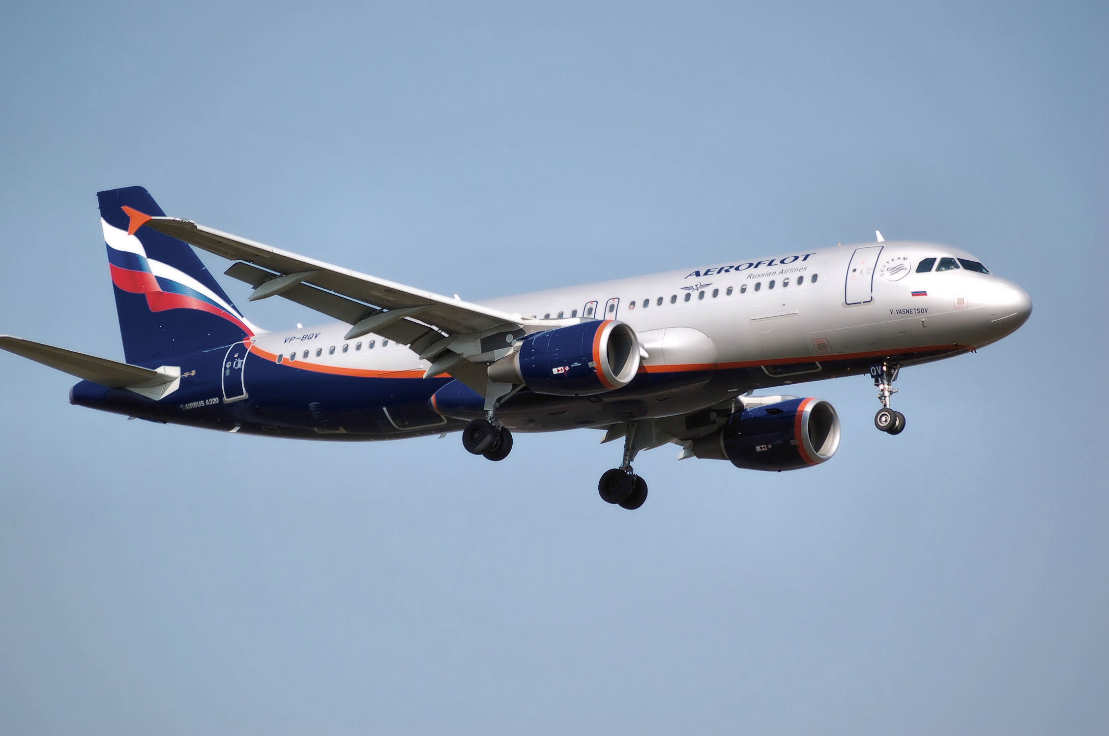 Aeroflot Airbus A320-200 (VP-BQV) landing at London Heathrow Airport, England.